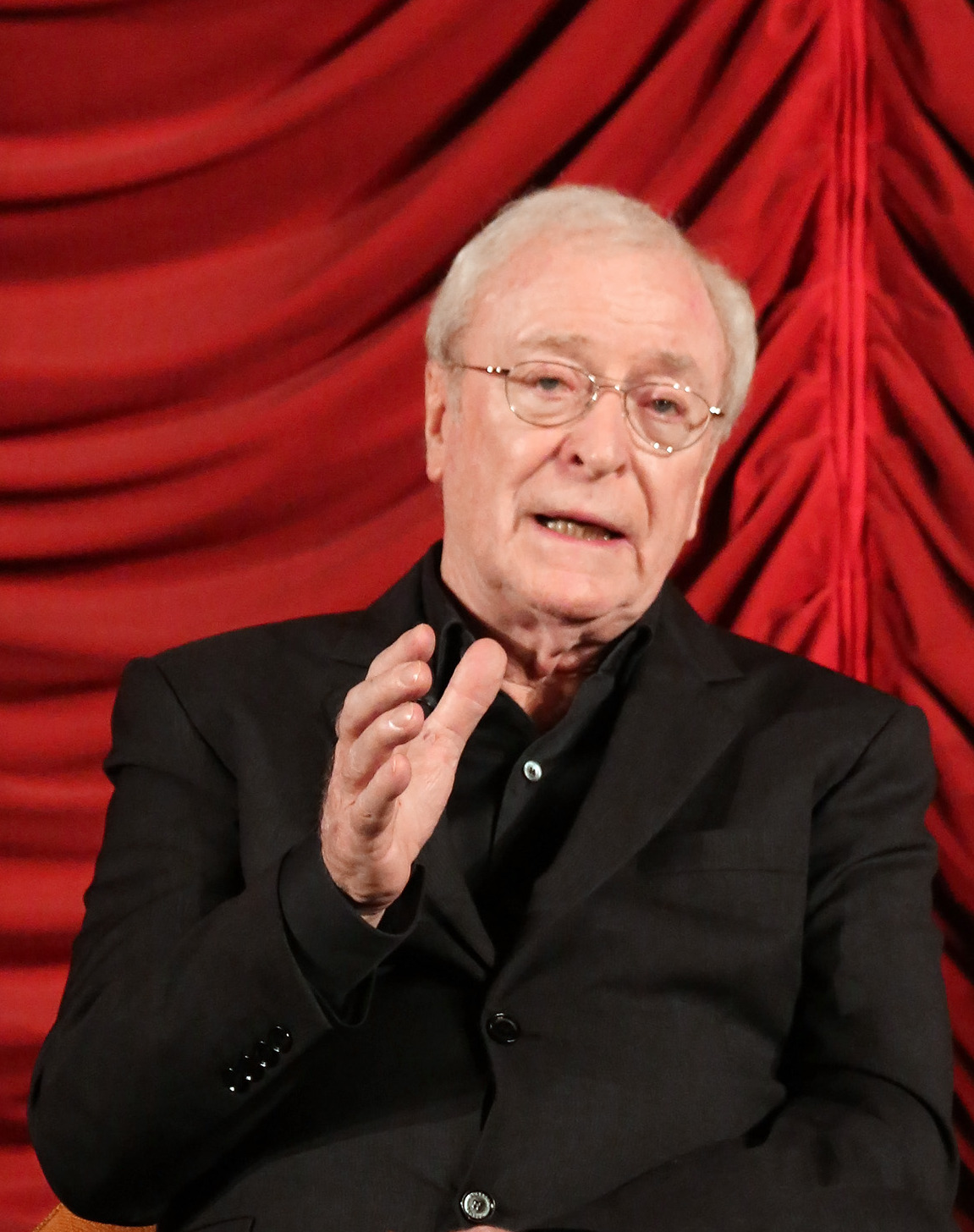 Michael Caine, guest at the Vienna International Film Festival 2012, Gartenbaukino.